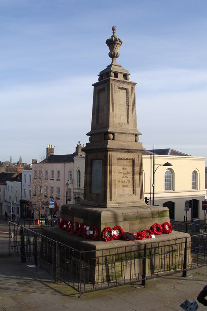 Chepstow War Memorial in winter The tributes from November's Remembrance ceremony can clearly be seen.